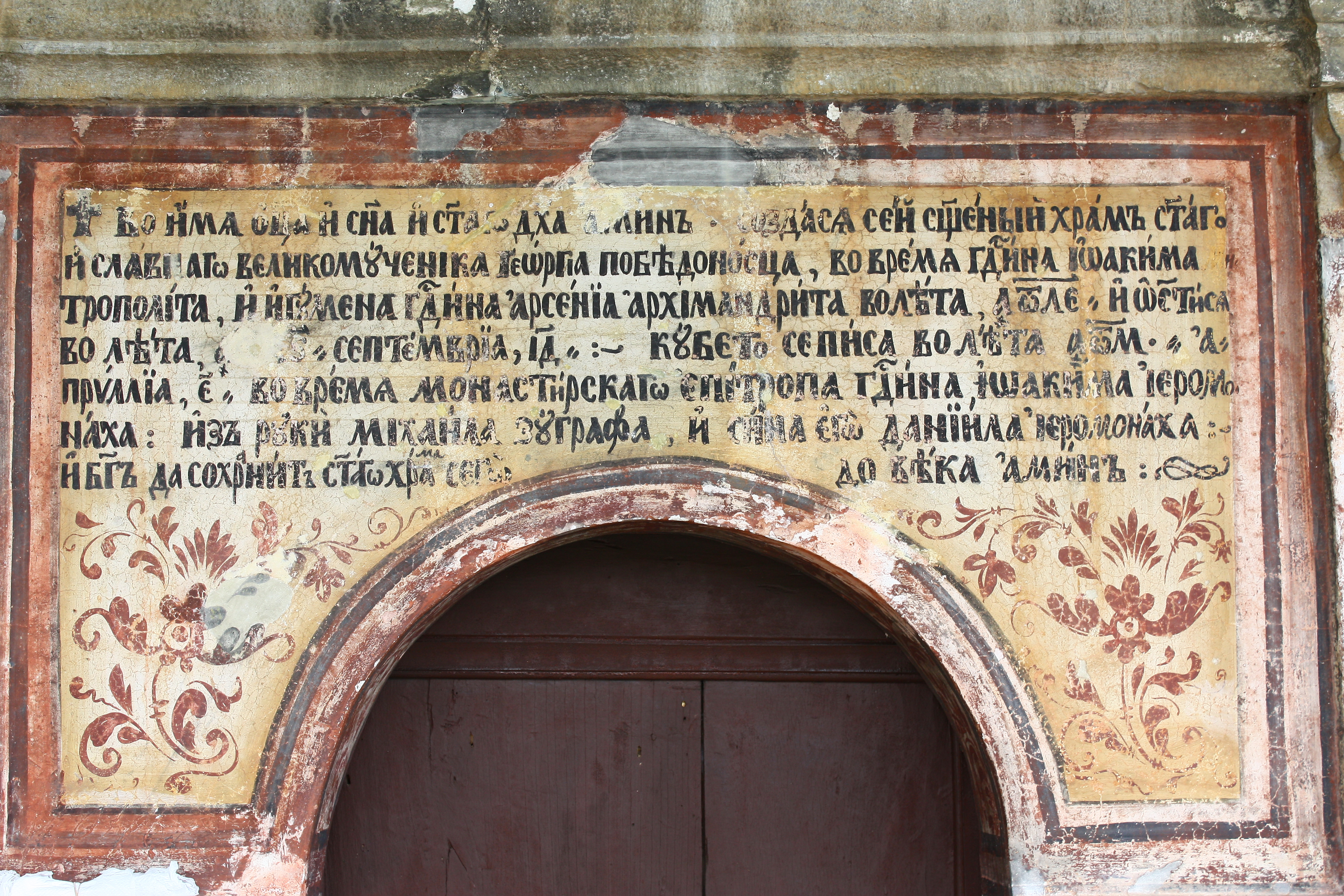 Inscription in St. George's Church (Rajčica), Macedonia